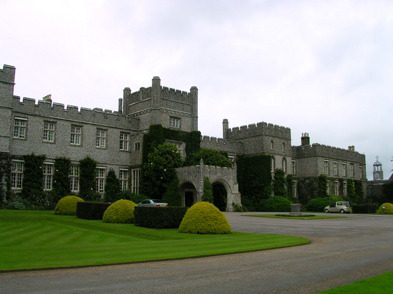 Taken in August 2007